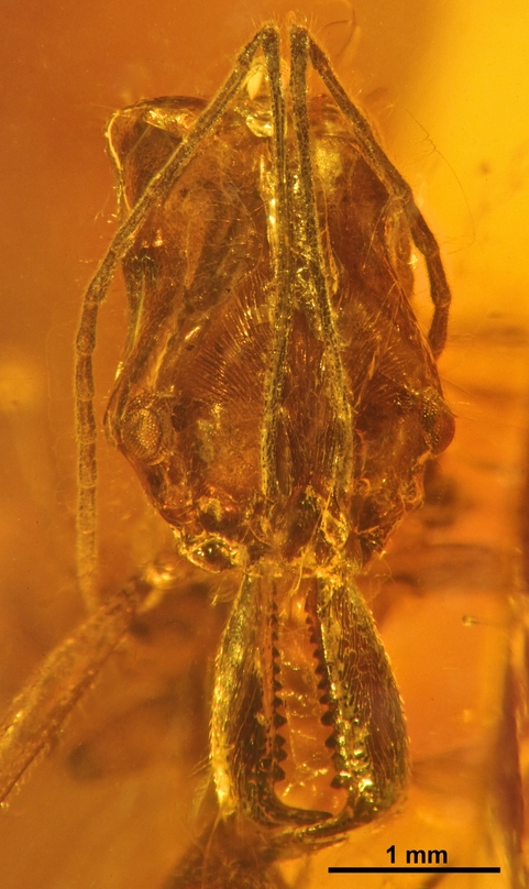 Dorsal view of the Odontomachus spinifer holotype worker head. Dominican amber, Burdigalian; Dominican Republic, Hispaniola Staatliches Museum fur Naturkunde, specimen SMNSDO2215